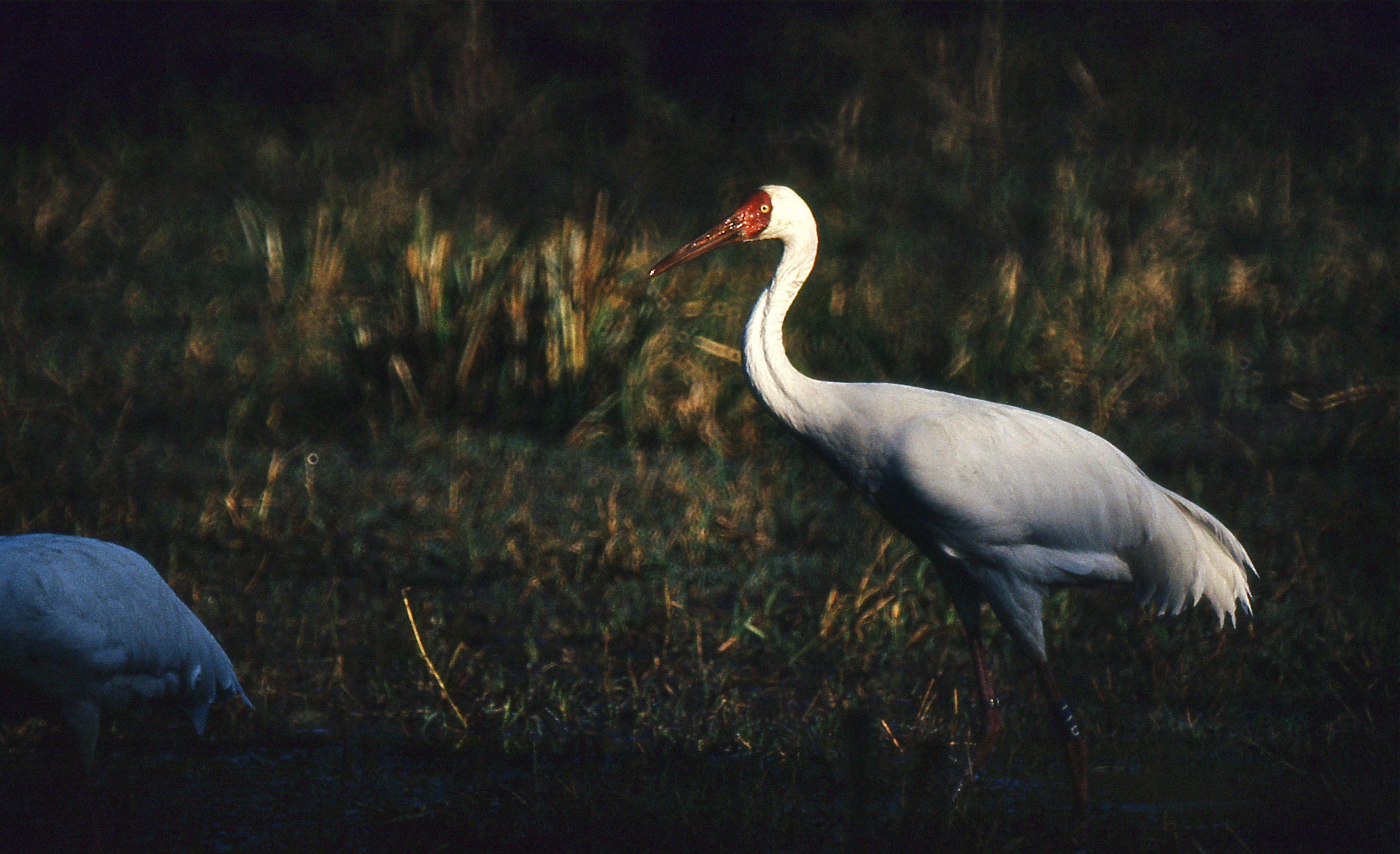 Keoladeo Ghana NP, Bharatpur, Rajasthan, INDIA Scanned Slide from February 1994